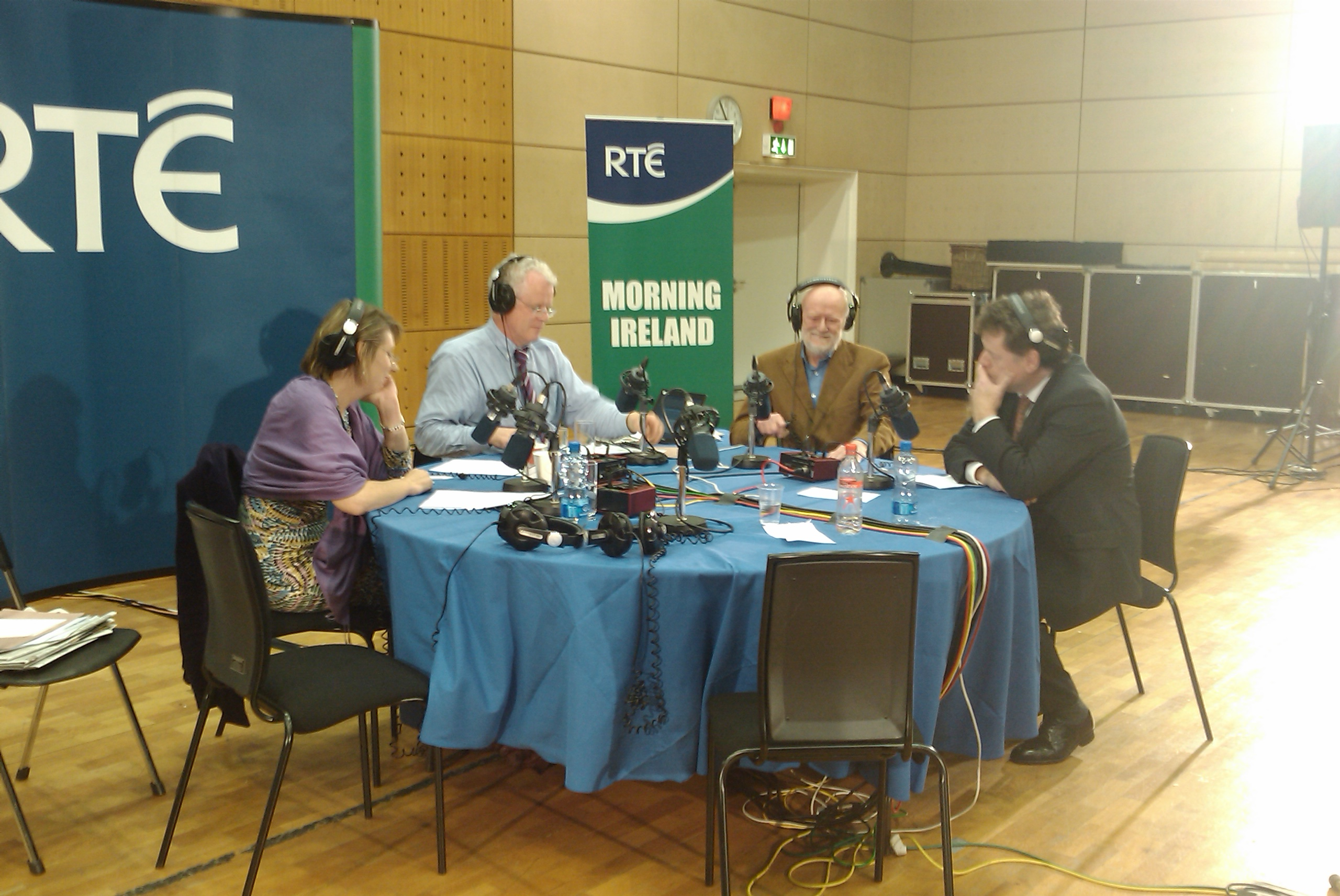 L-R: Aine Lawlor, Cathal Mac Coille, David Hanly, David Davin-Power at the 25th Anniversary of Morning Ireland.